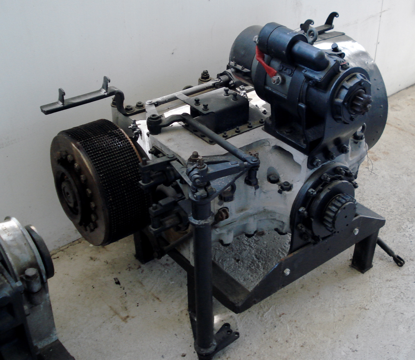 Transmission of Soviet T-34 tank displayed in Finnish Tank Museum (Panssarimuseo) in Parola. Some parts have been removed or cut to show the inner workings.